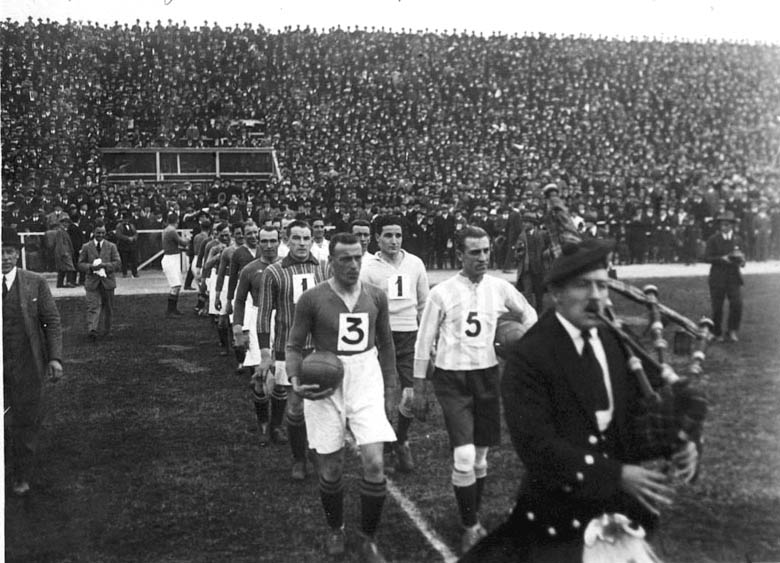 Zona Norte combined v. Scottish Third Lamark A.C. match held in River Plate stadium (Alvear and Tagle), Buenos Aires. Both teams entering together to the pitch.